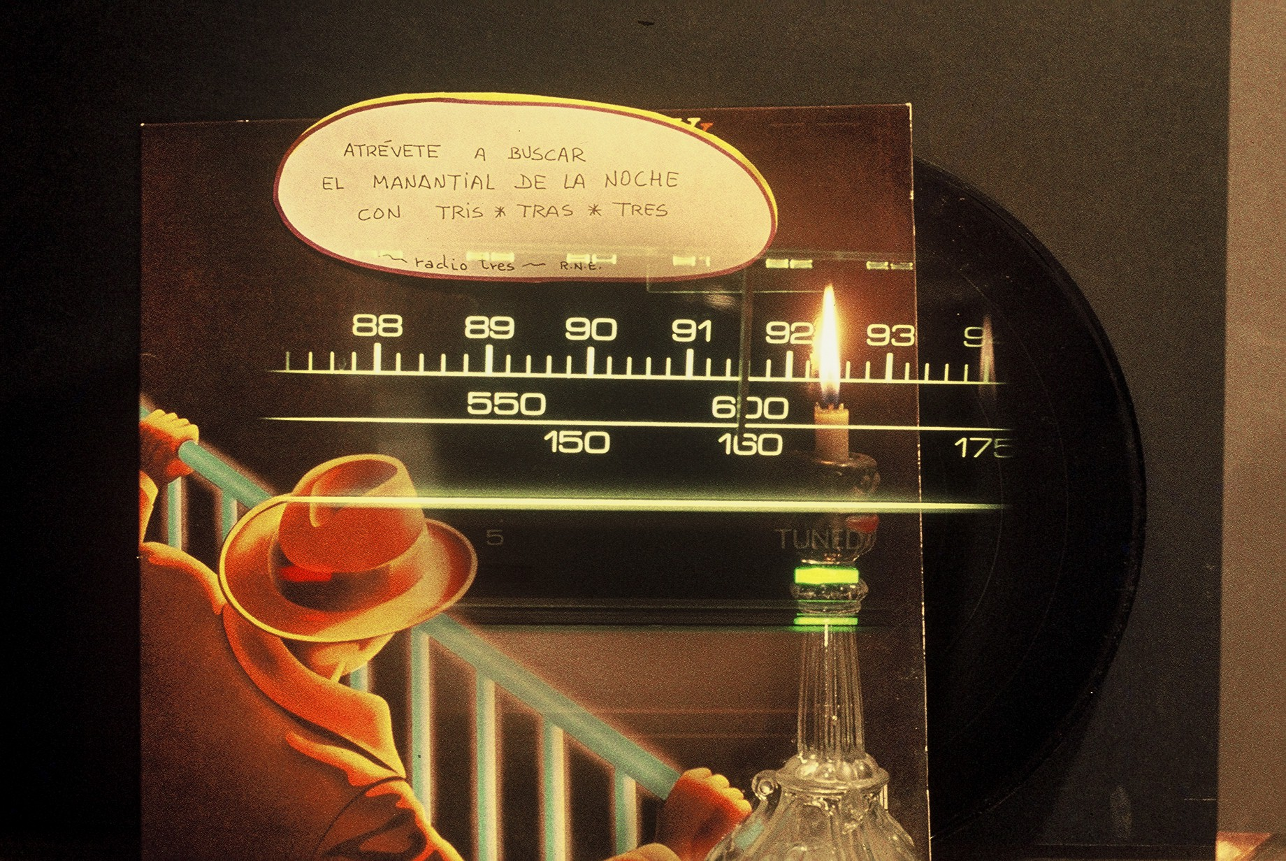 Logo for the nocturnal space of Radio 3 of Radio Nacional of Spain "Tris Tas Tres", issued between 1981 and 1987. In addition to music content and company, was programmed the iconoclastic serial radio-comix starring four independent antiheros among themselves and entitled "El Manantial de Noche"-formatted.